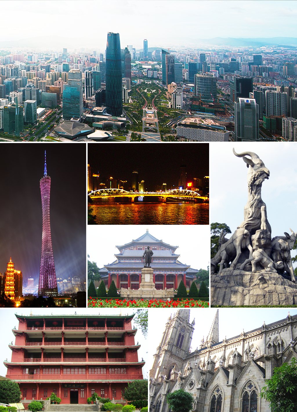 Montage of various Guangzhou images